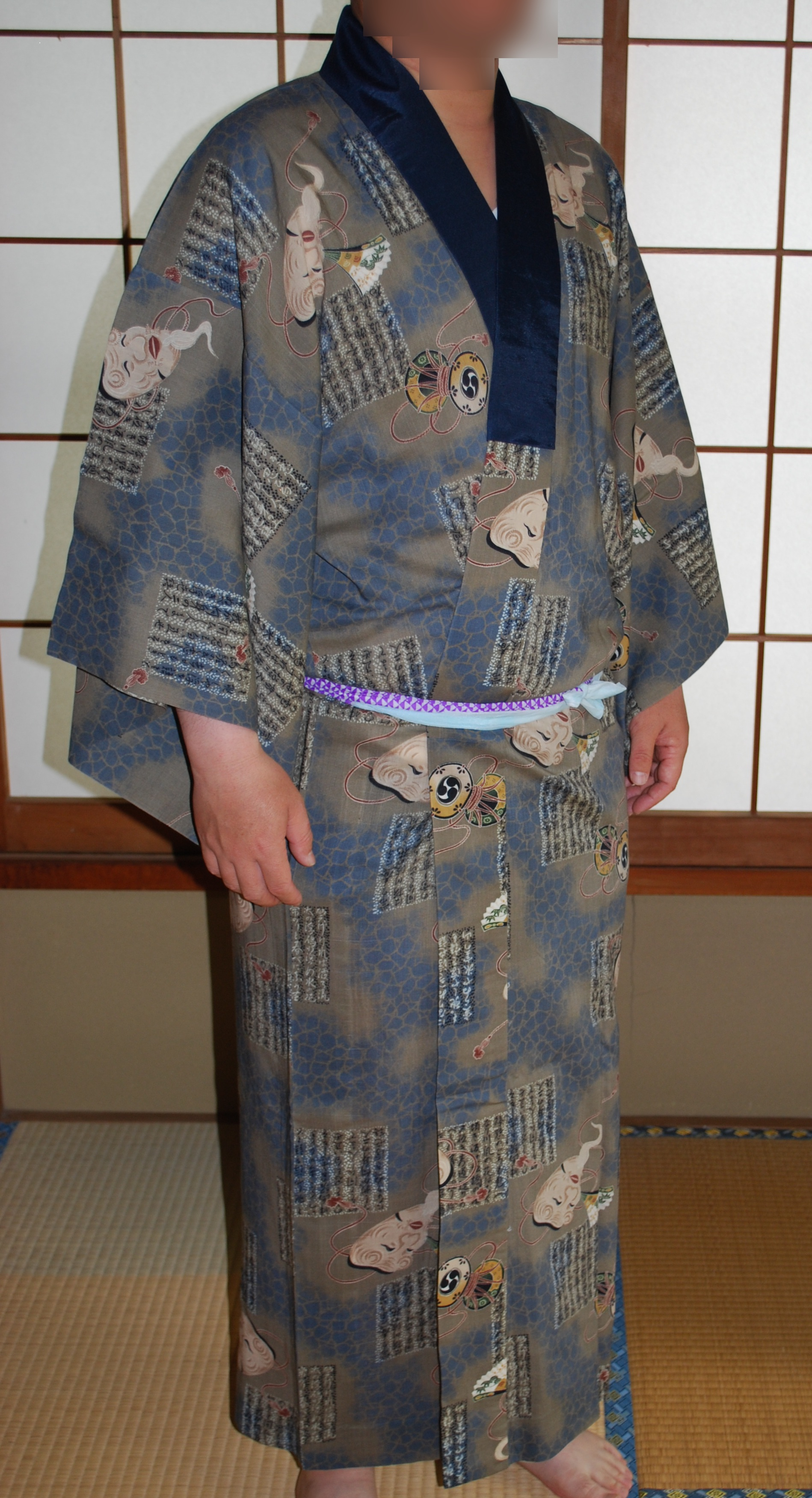 Long undergarment of the kimono,Nagajyuban,katori-city,Japan